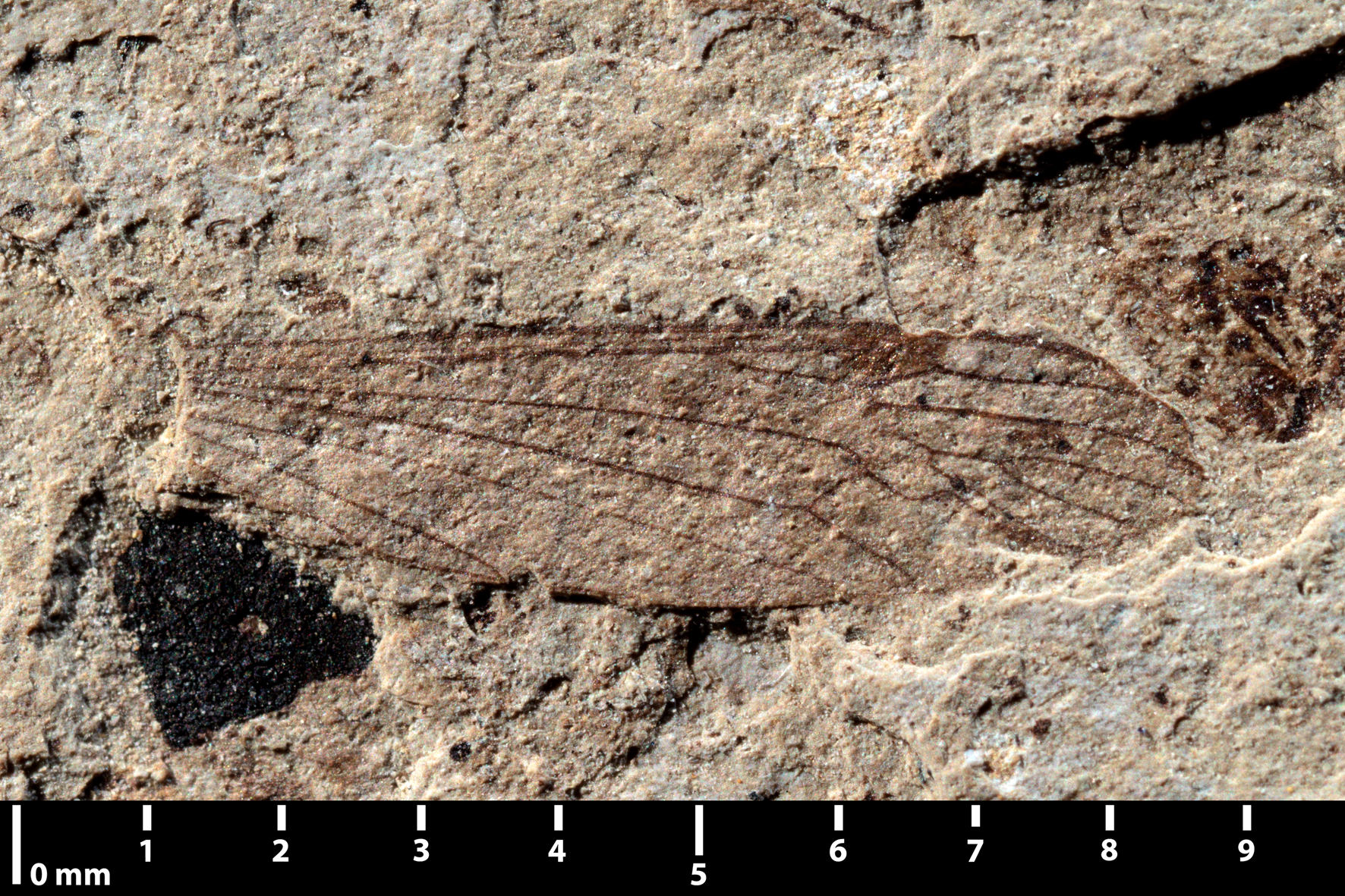 The Tipula (Platytipula) anatolica holotype part specimen with direct lighting. Aquitanian, Miocene; Bes-Konak, Anatolia, Turkey Muséum national d'Histoire naturelle specimen MNHN.F.A38734